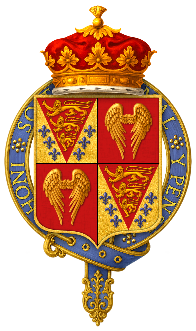 Shield of arms of Edward Seymour, 12th Duke of Somerset, KG, PC